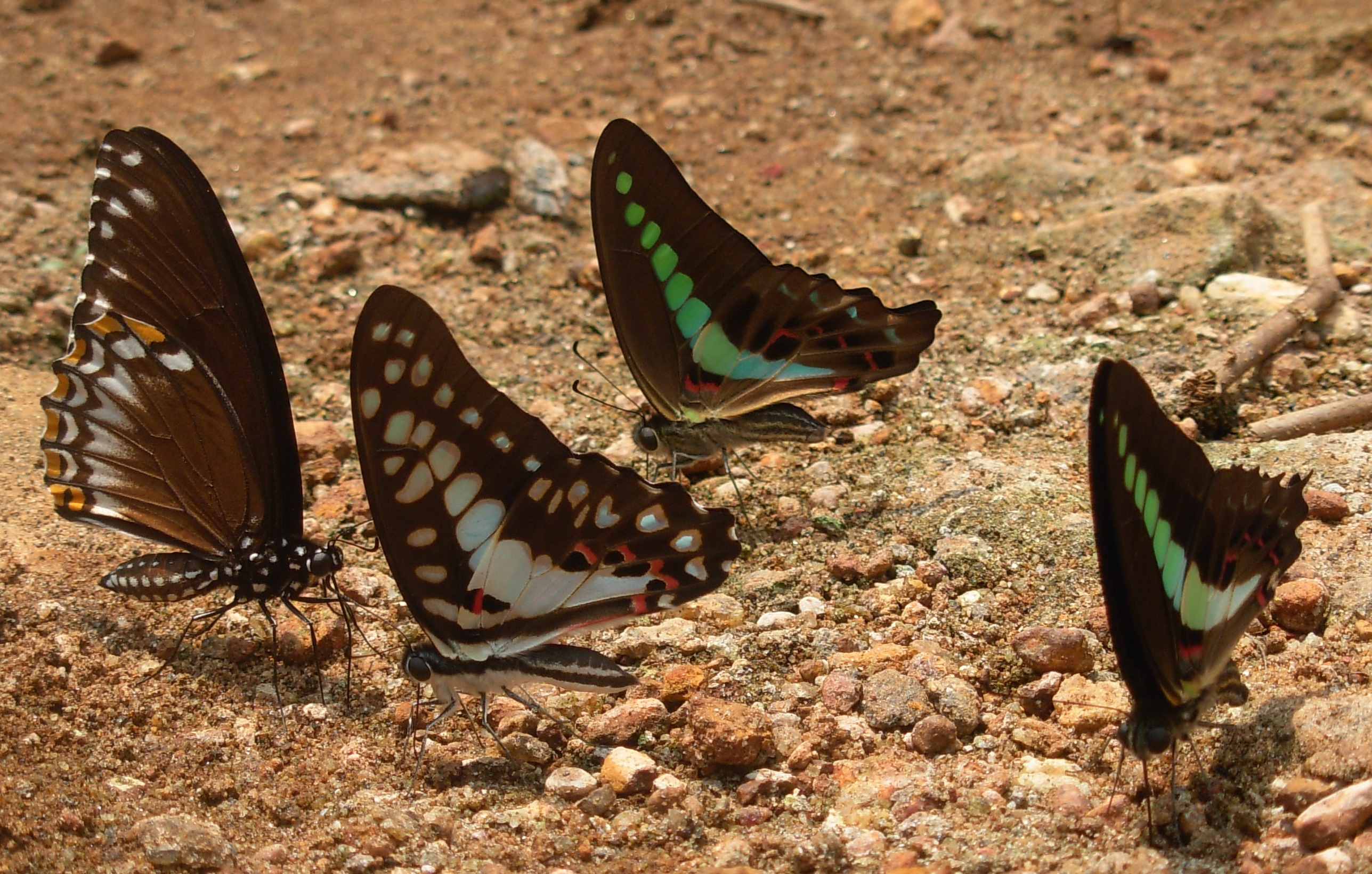 Butterflies of kerala.. Mud puddling in March